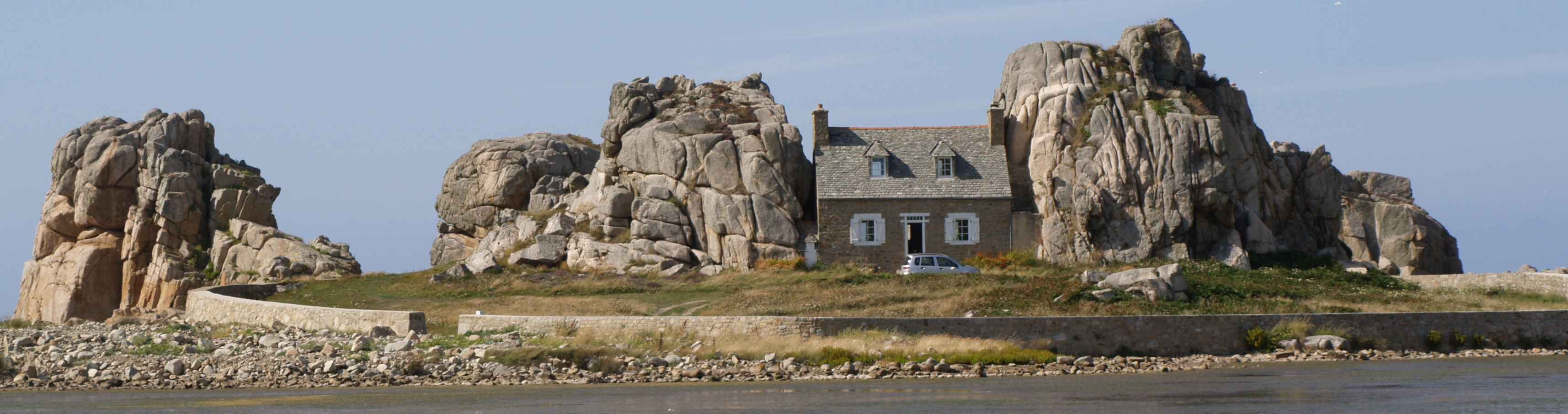 A famous house in Plougrescant